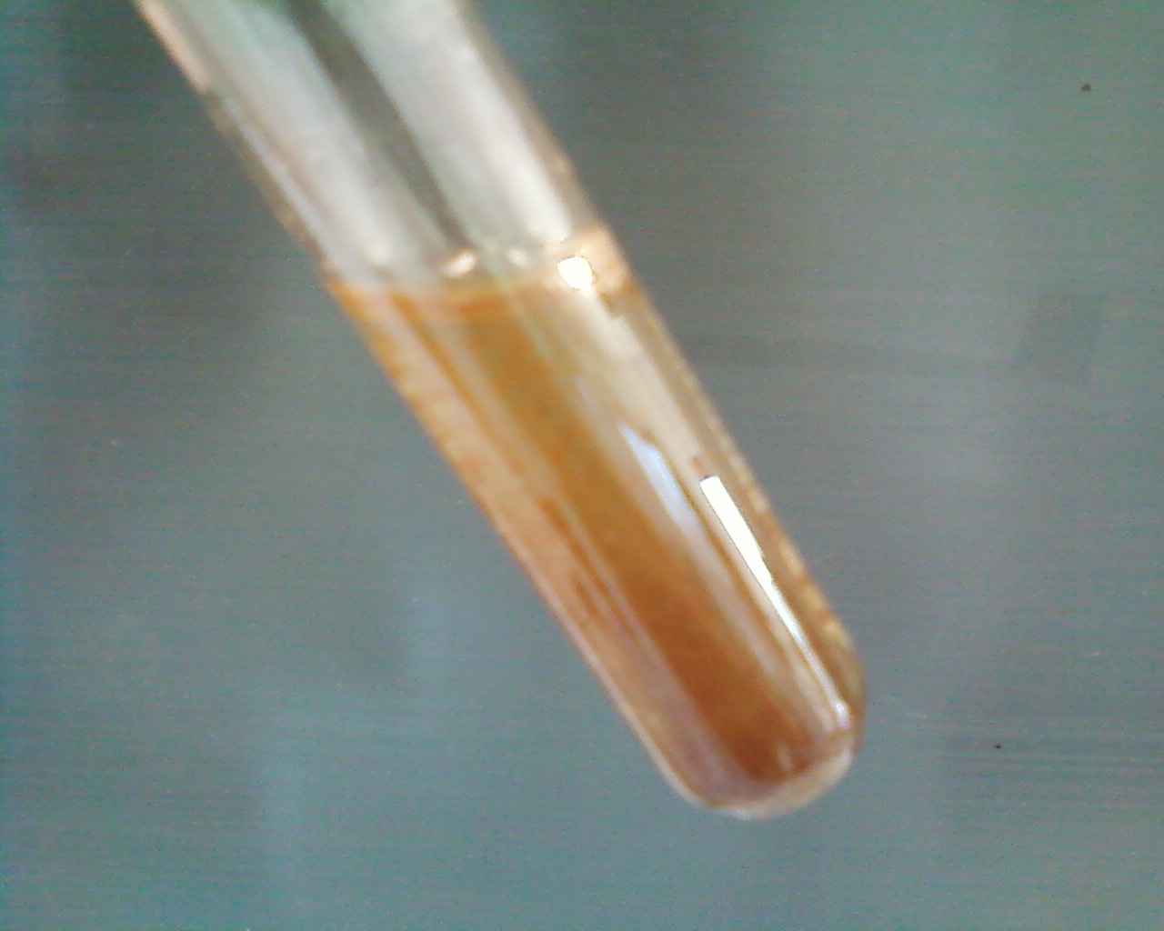 baeyer's test